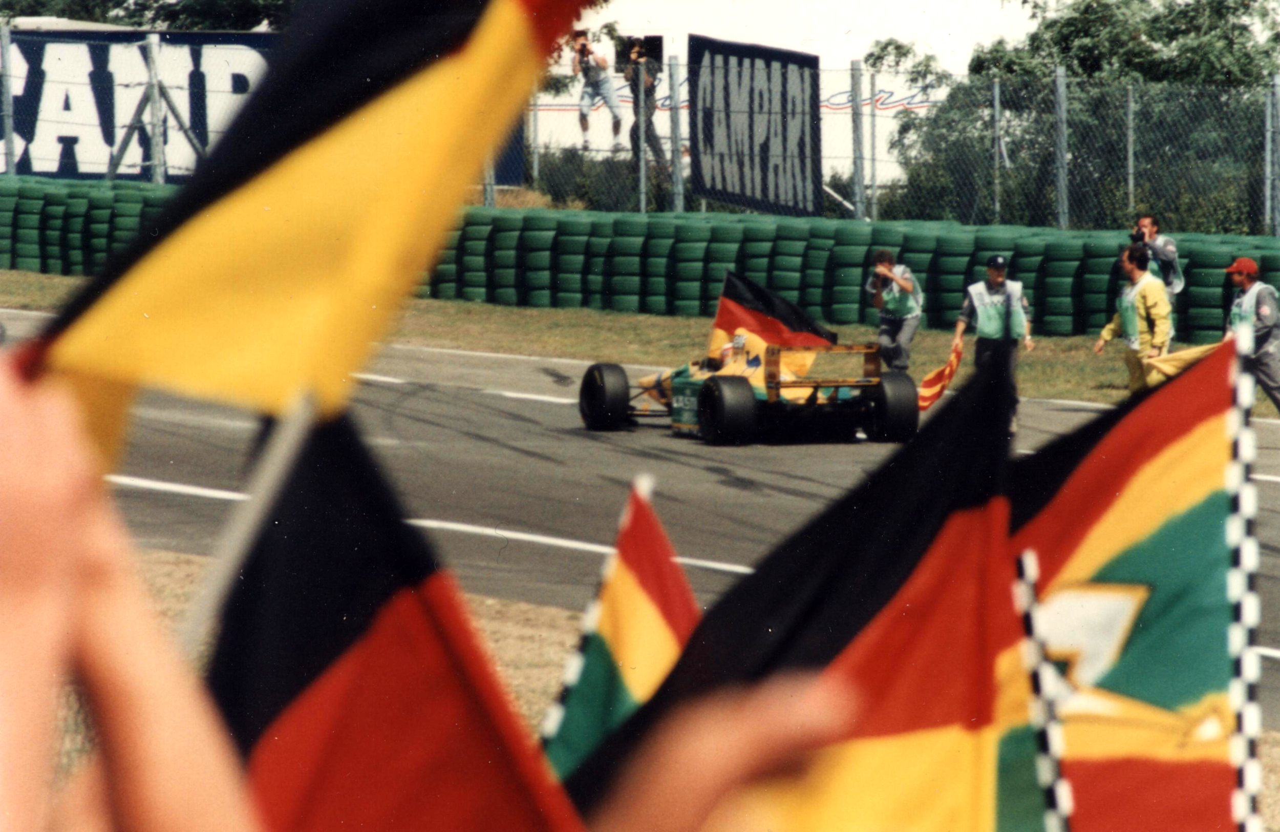 Hockenheim 1993 Michael Schumacher